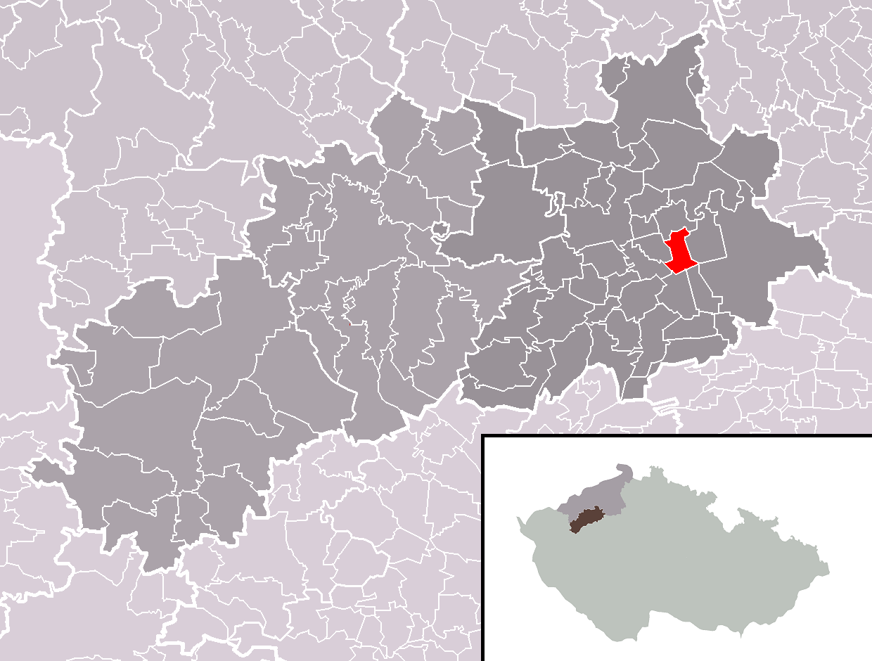 Location of Veltěže municipality within Louny District and administrative area of Louny as a Municipality with Extended Competence.